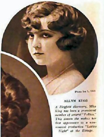 Actress Allyn King